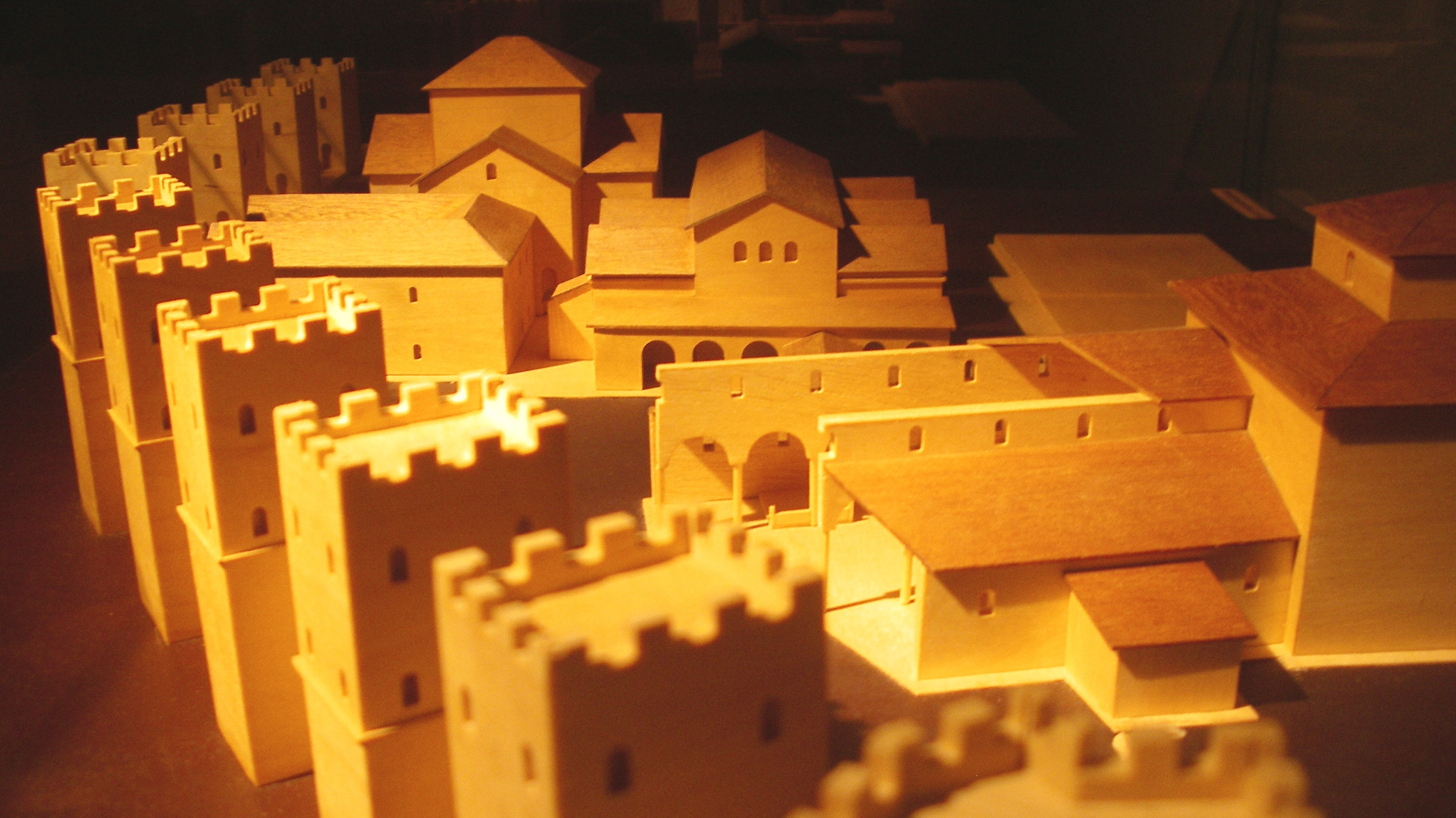 Model of the Barcino cathedral, ca. 6th cent., with the paleochristian and visigothic temple, and the city walls. Wood model at the Museu d'Història de la Ciutat de Barcelona